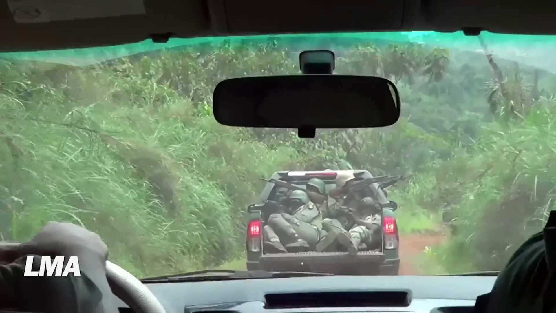 Cameroonian troops under fire from Ambazonian fighters. Unknown place and time